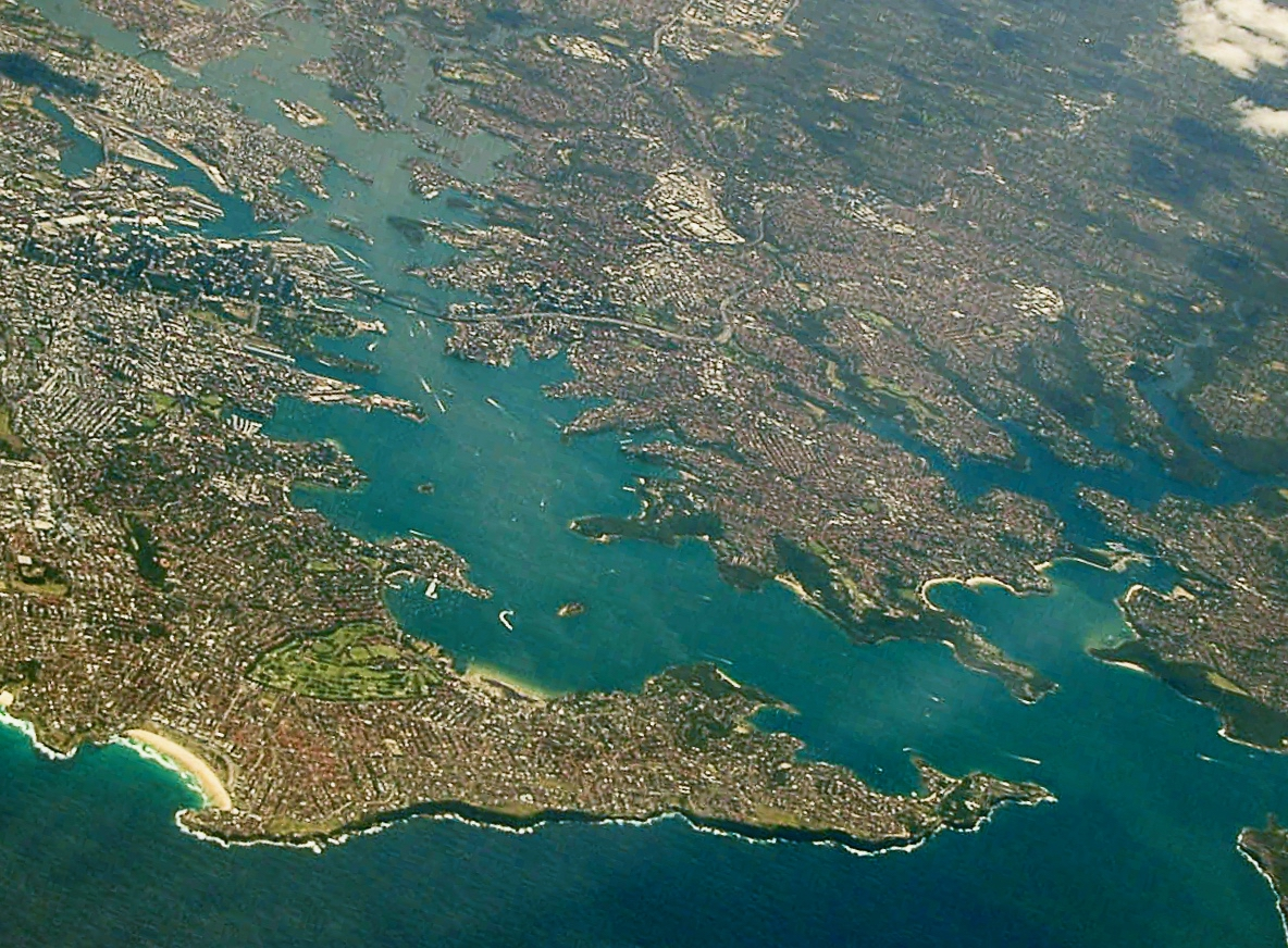 Sydney Harbour aerial showing eastern suburbs (bottom), CBD (left), and North Shore (right). Adapted from Tim Starling orignal photo on Wikimedia COmmons.